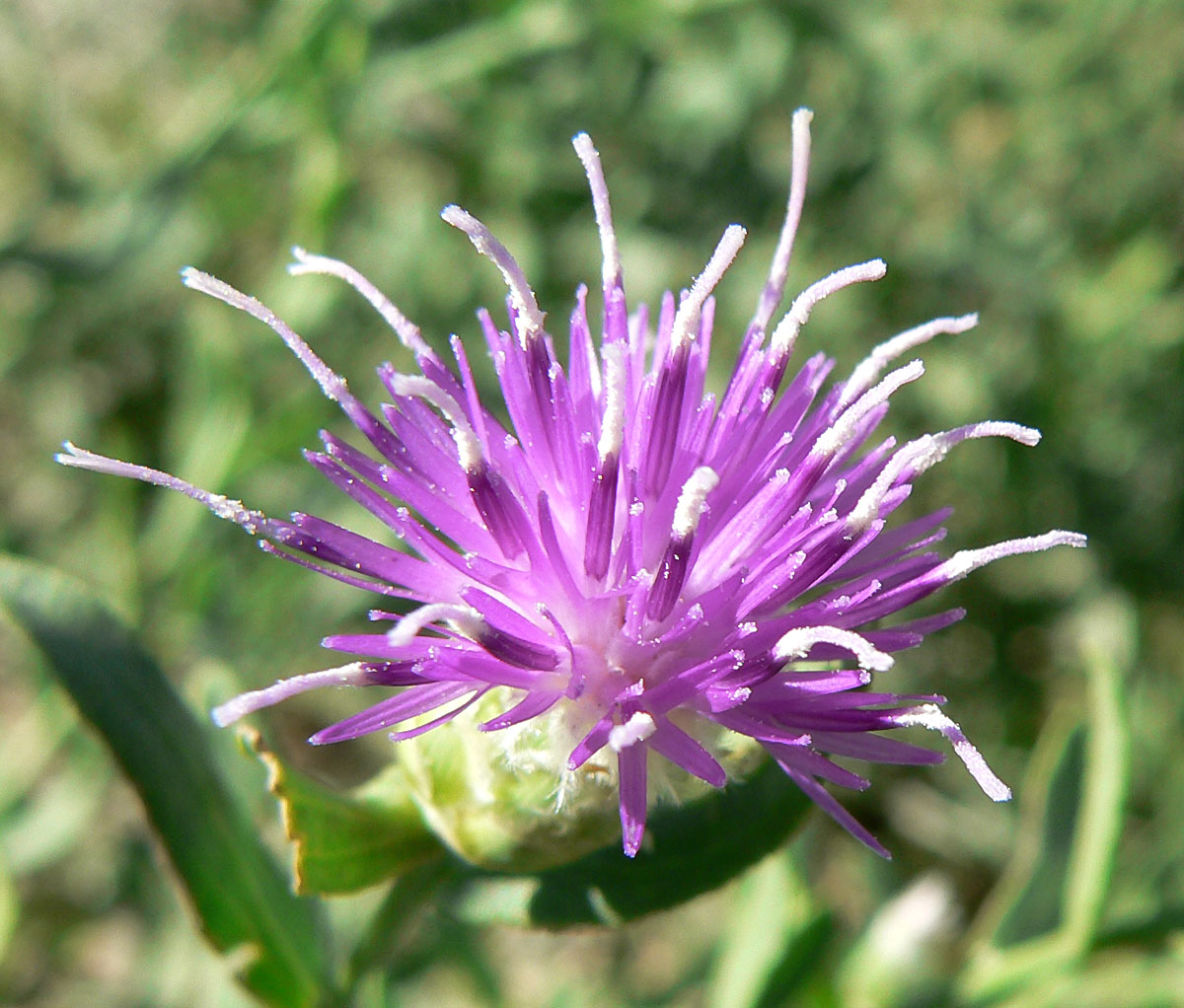 Rhaponticum repens (syn. Acroptilon repens) near Cold Creek Fire Station, Spring Mountains, southern Nevada (elev. about 1800 m)